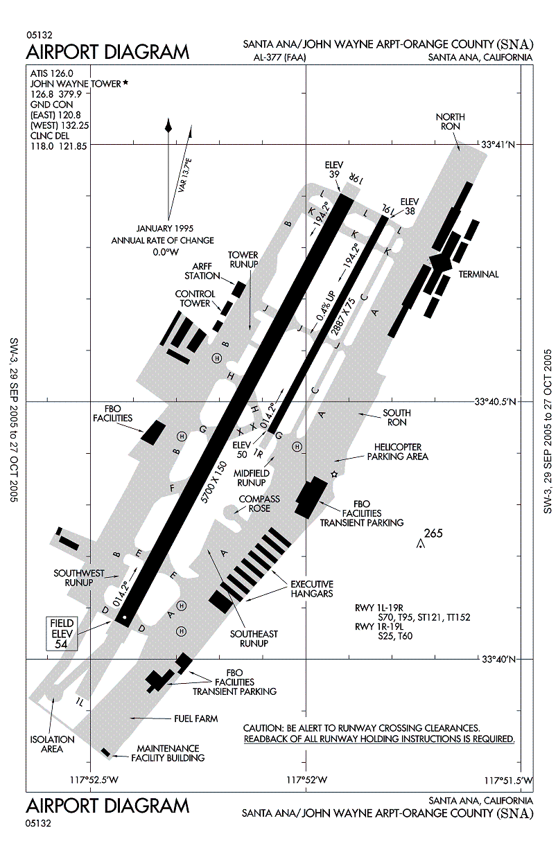 FAA diagram of John Wayne Airport (SNA), formerly Orange County Airport, in Santa Ana, California, United States.